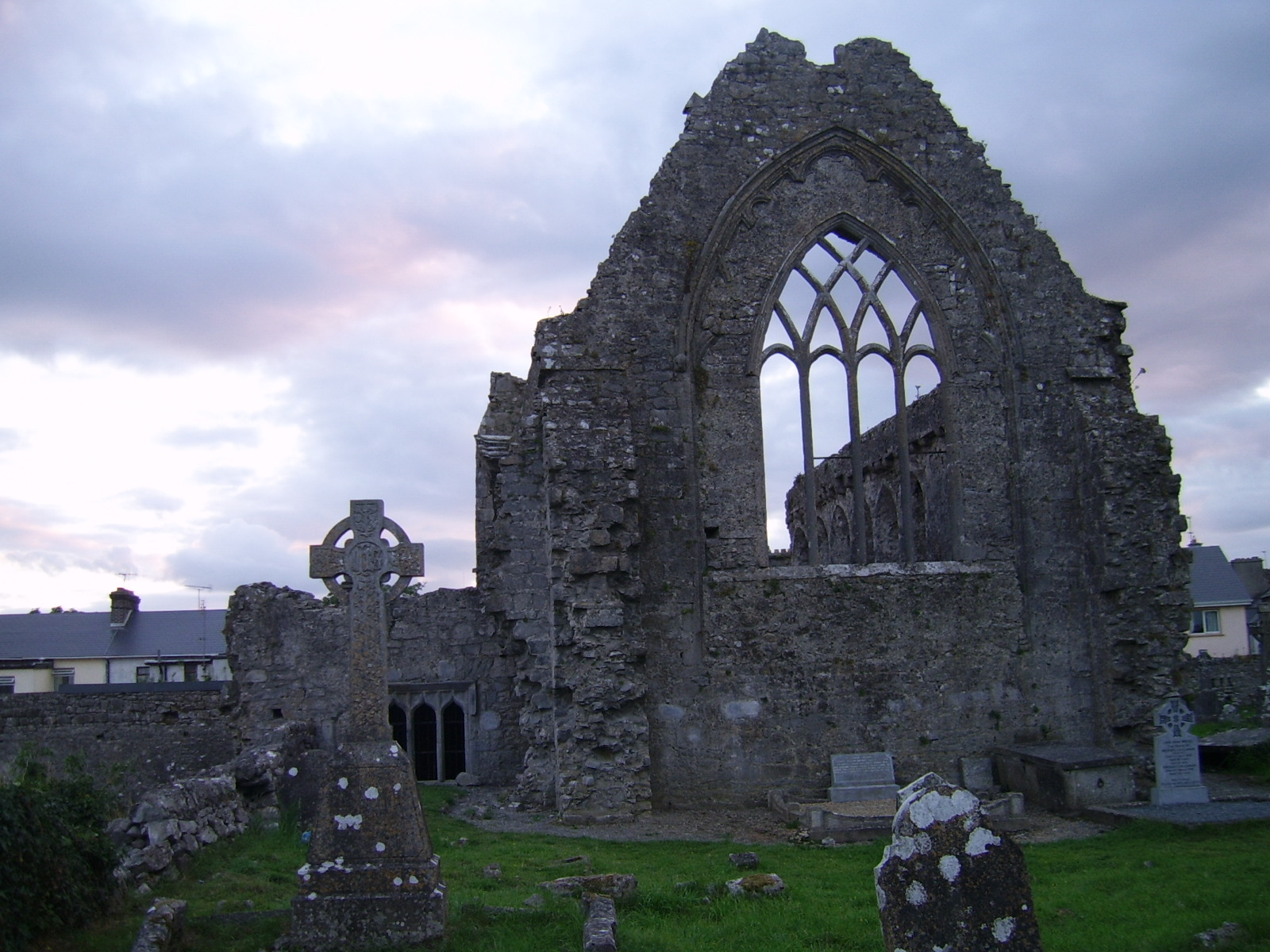 Athenry